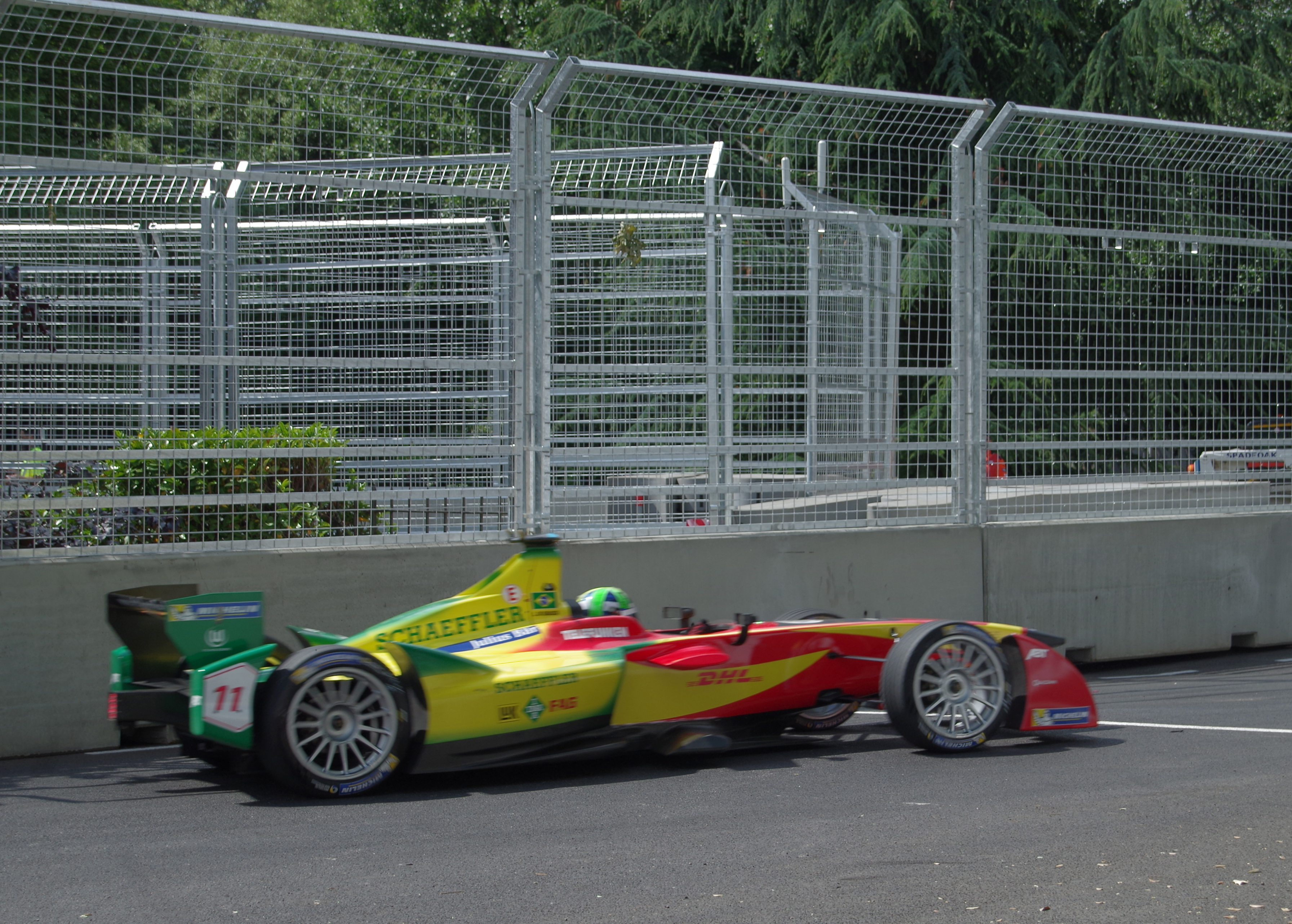 Lucas di Grassi, driving for Audi Sport ABT, during second practice for the 2015 FIA Formula E Visa London ePrix.